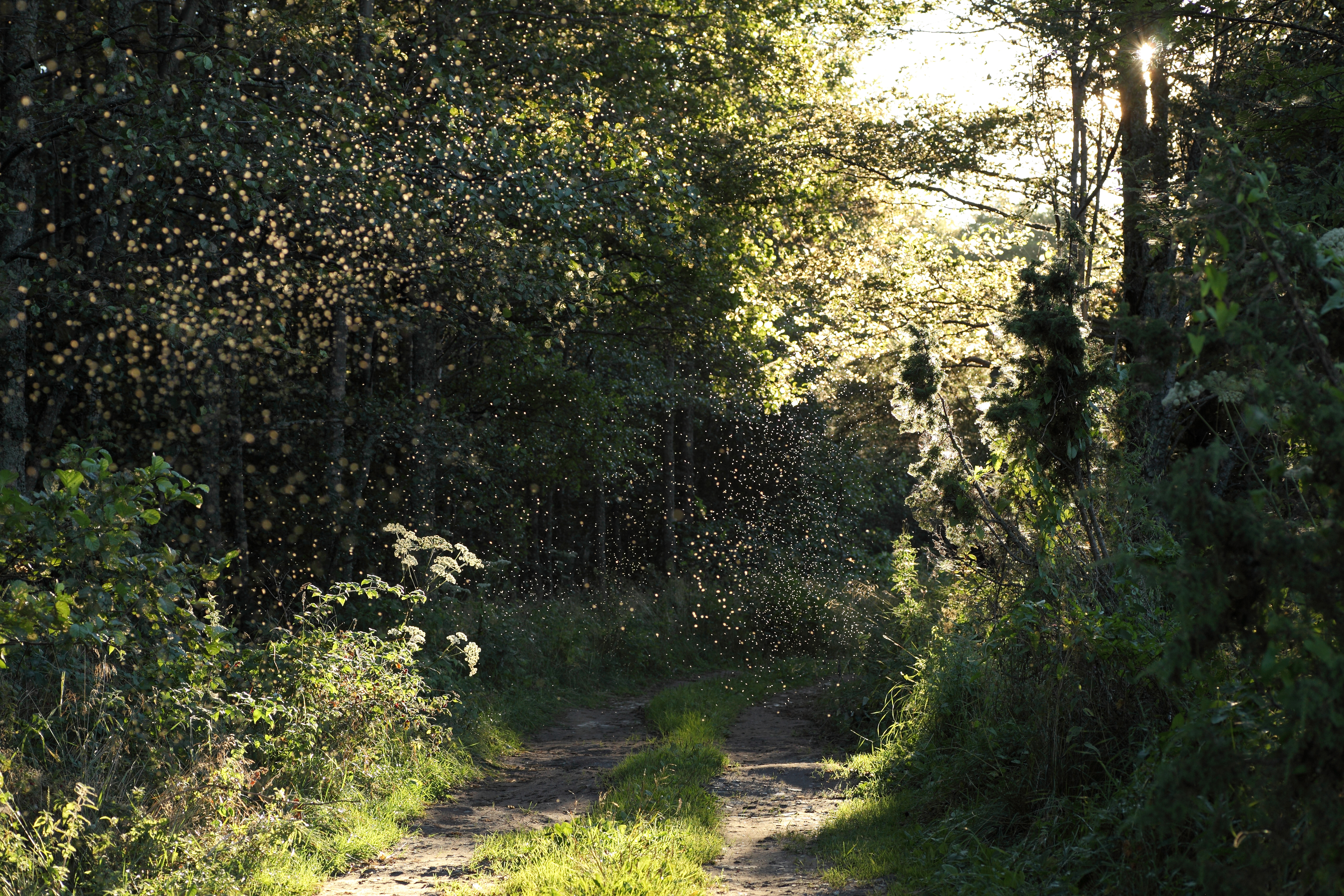 Simuliidae above the forest road. Pärispea village, Estonia.